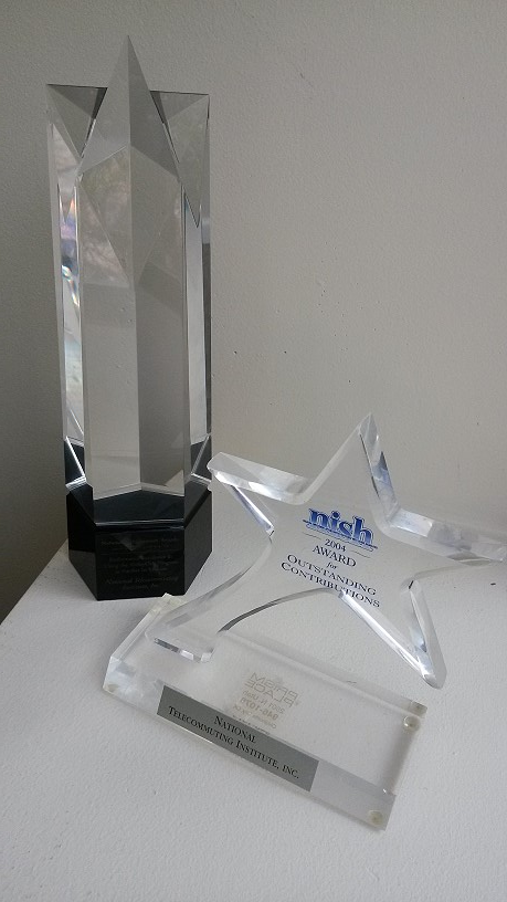 These are the 2013 and 2004 NISH awards for helping Americans with Disabilities in the workplace.